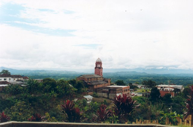 Panorámica del municipio de Ulloa